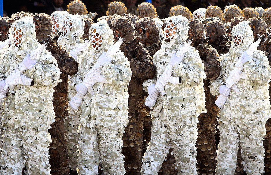 Iranian army (land force) soldiers in full camouflage suits march during Islamic Republic of Iran army day parade.